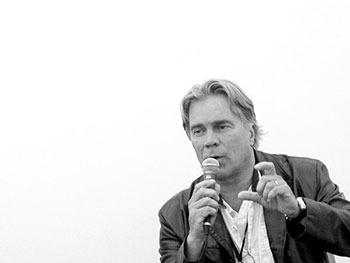 Einar Kárason in Aarhus Denmark 2011